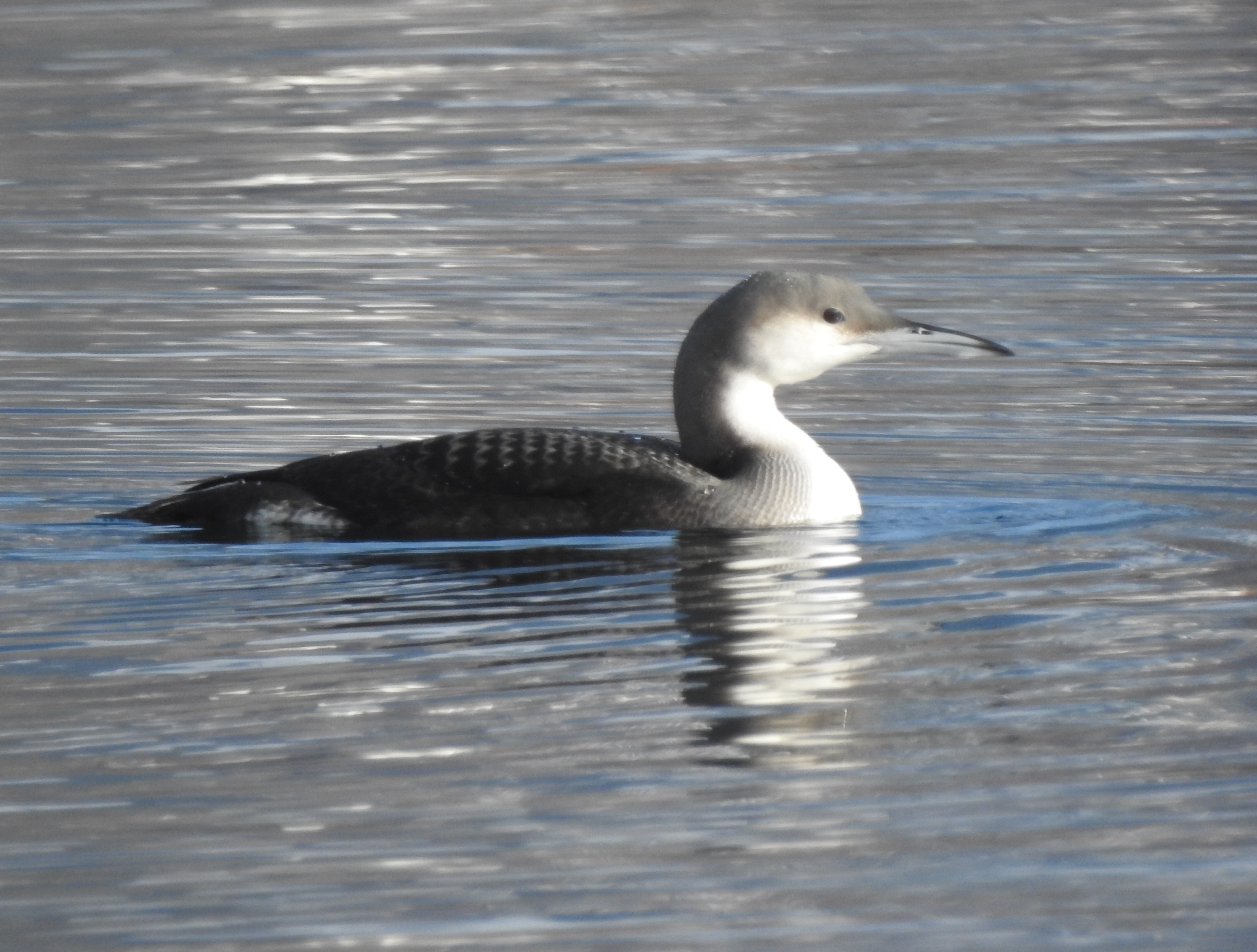 Black-throated Loon, as a winter guest at Lake Zeller, Salzburg (state), Austria